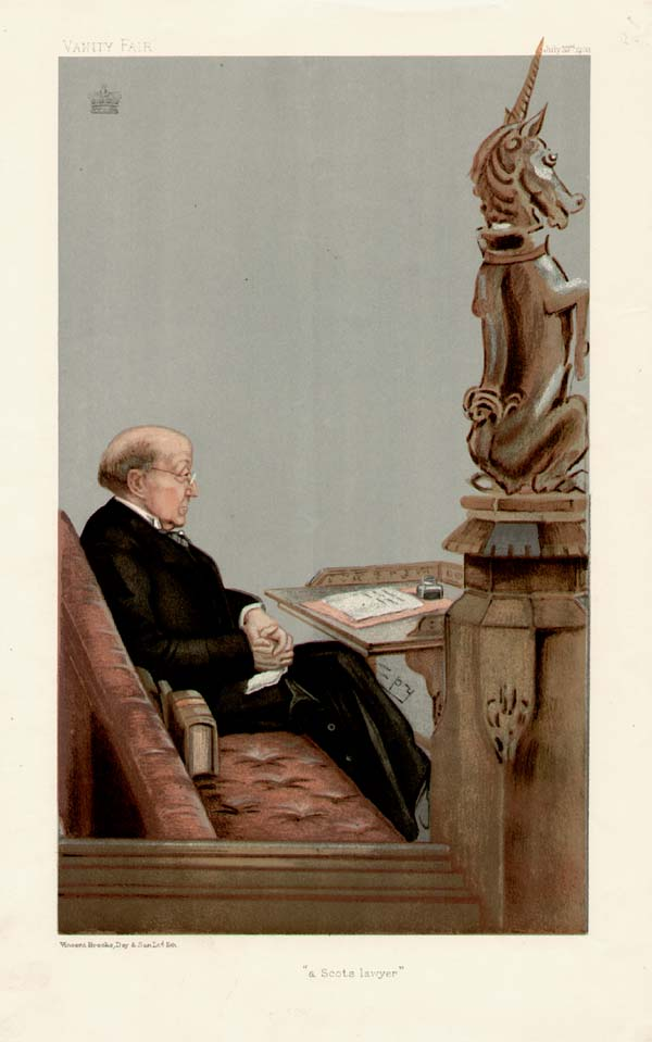 Caricature of Alexander Burns Shand, 1st Baron Shand. Caption read "a Scots lawyer".